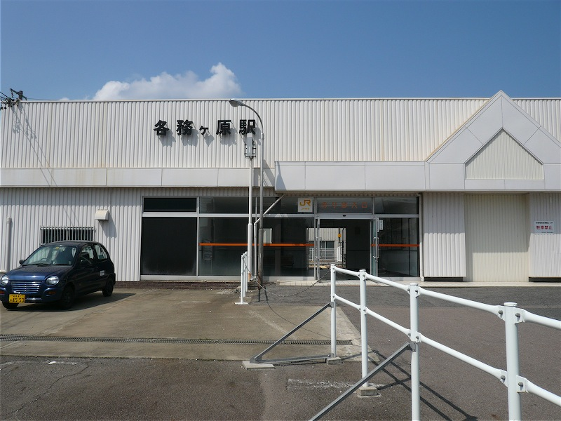 Kagamigahara Station building on the JR Takayama Main Line.